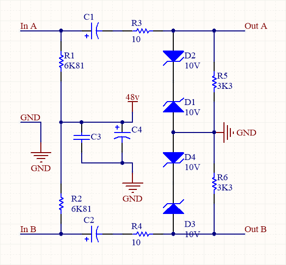 Phantom power injection with protection circuitry.